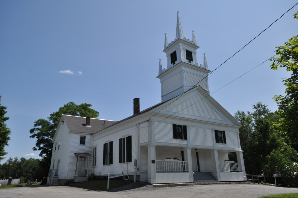 Oxford Congregational Church and Cemetery, Oxford, Maine.